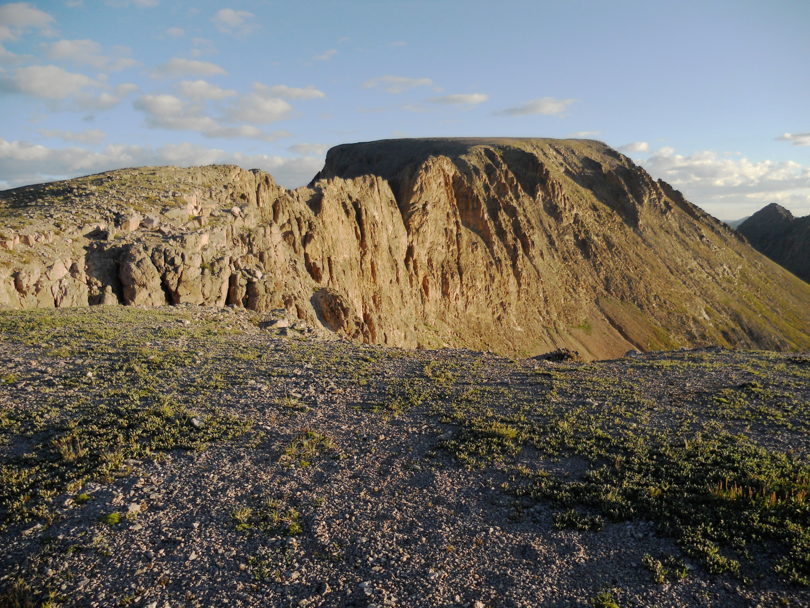 Half Peak, elevation 13,841 ft (4,219 m), viewed from the south southwest. The peak is located in the Gunnison National Forest.